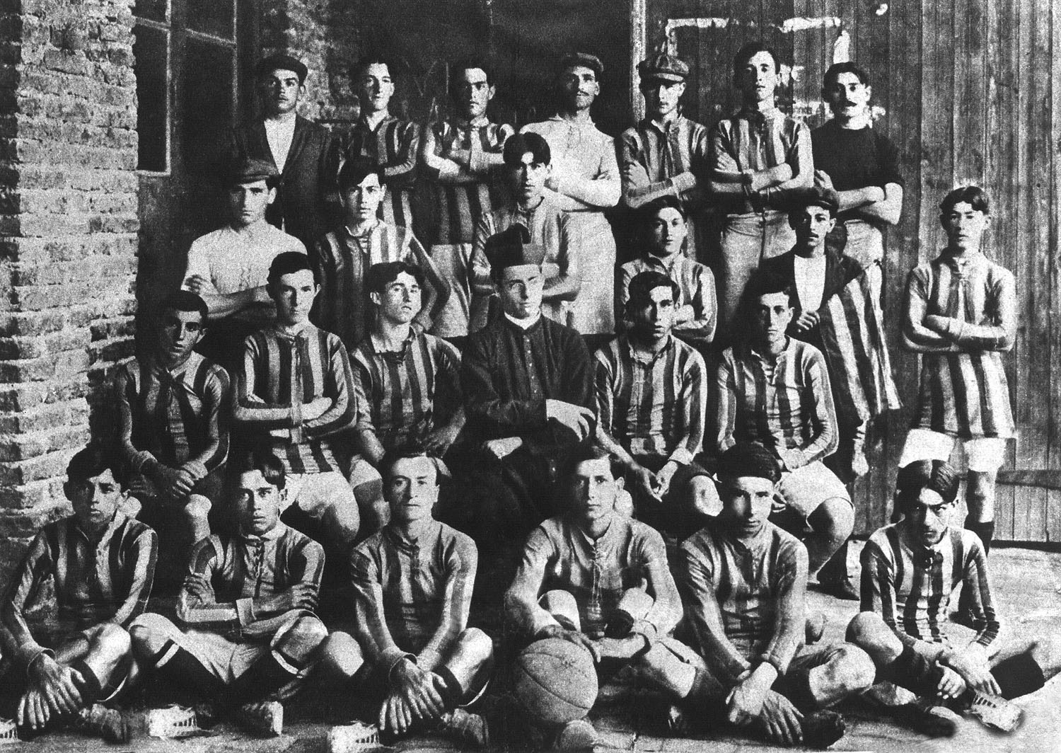 One of the first teams of San Lorenzo de Almagro, with father Lorenzo Massa, who helped the boys to form a football squad.